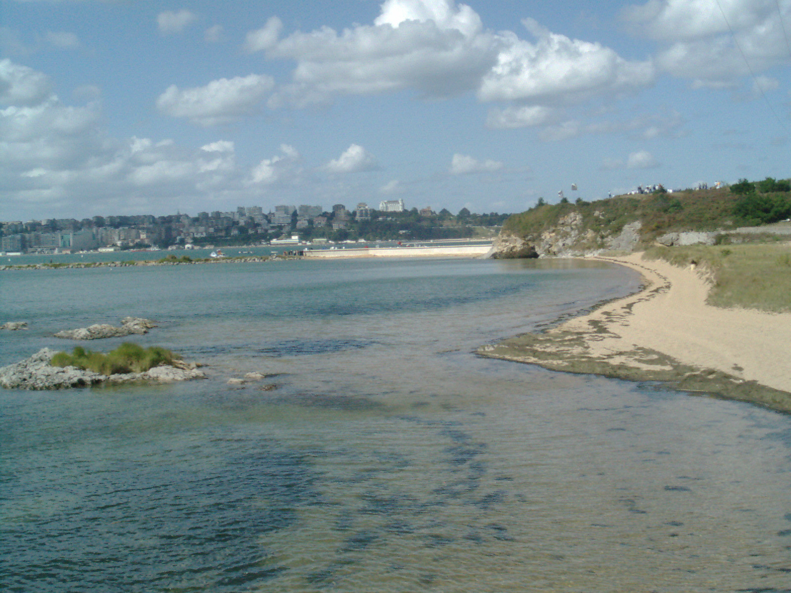 Beach of Pedreña, Cantabria (Spain)